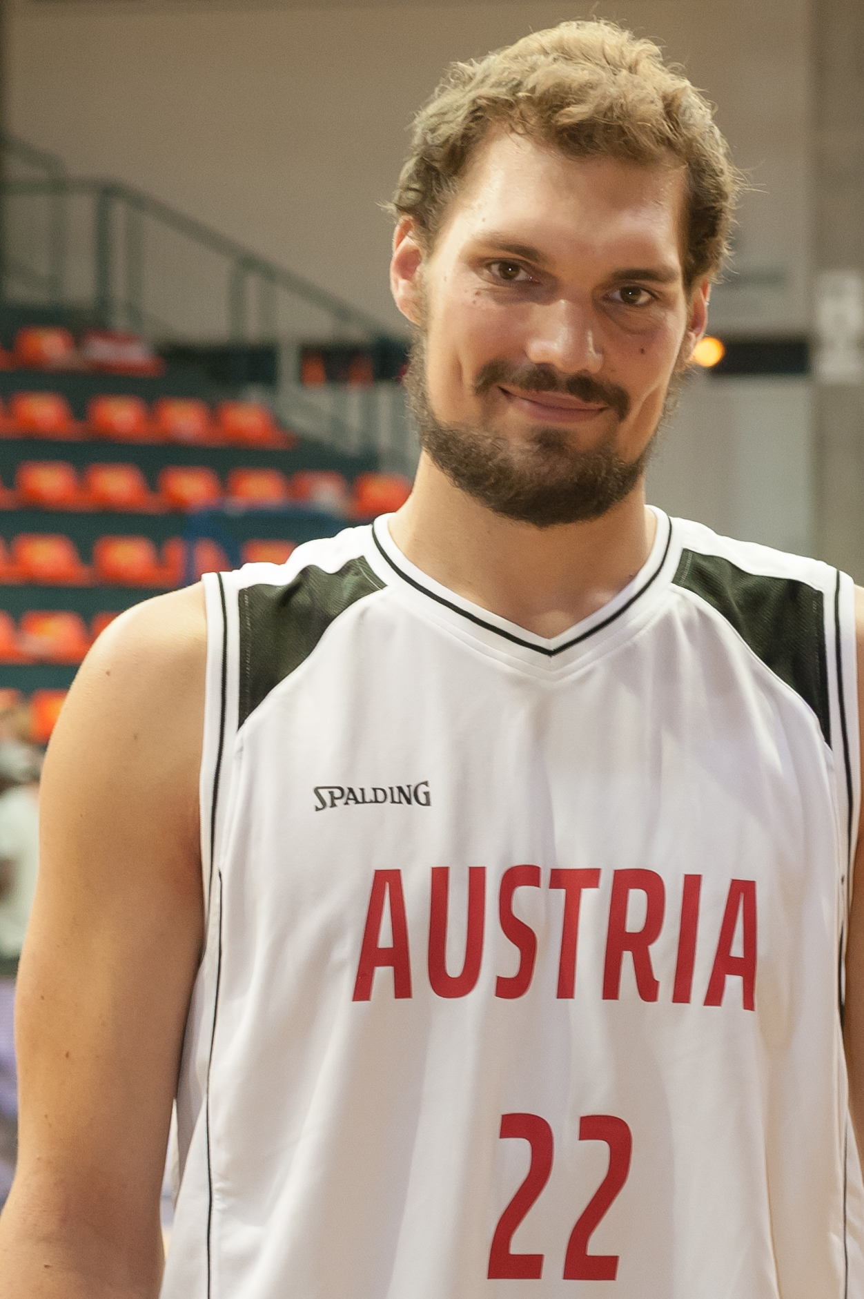 Basketball friendly Austria - Japan, 2015-08-08: Christoph Greimeister